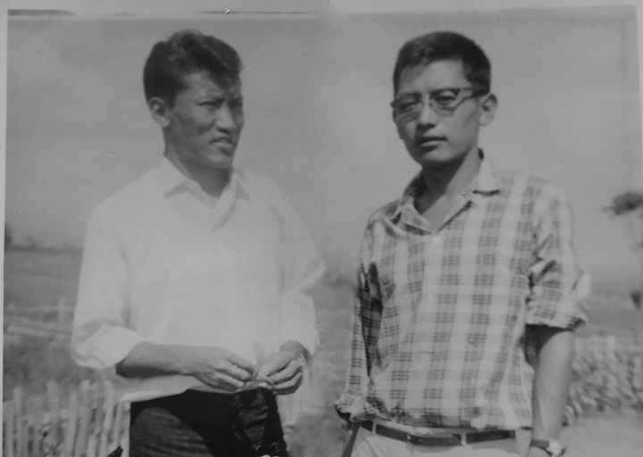 Losang Thonden with his Cousin Brother